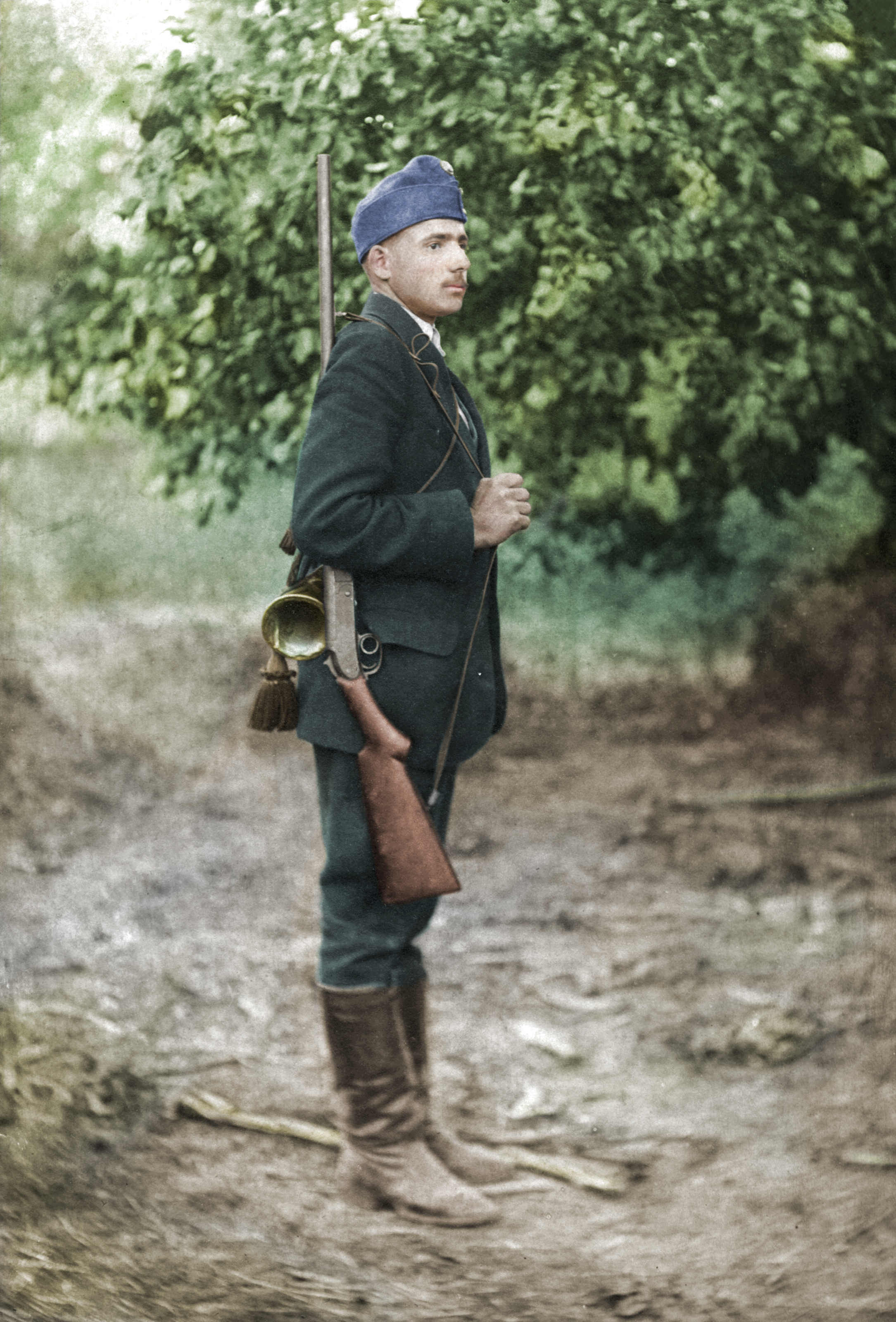 A Hungarian soldier on the Italian front (Peter Gombos, 1902-1993)